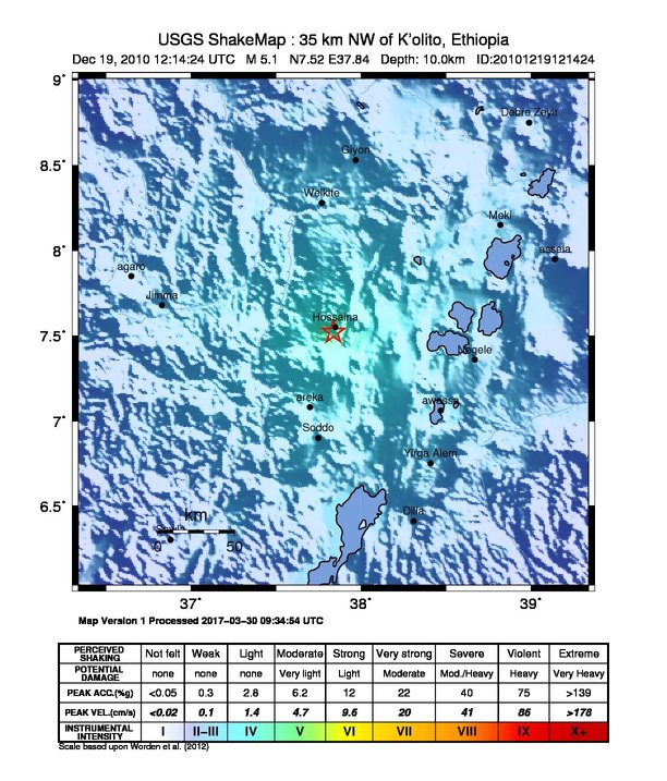 M 5.1 - Ethiopia 2010-12-19 12:14:24 (UTC)